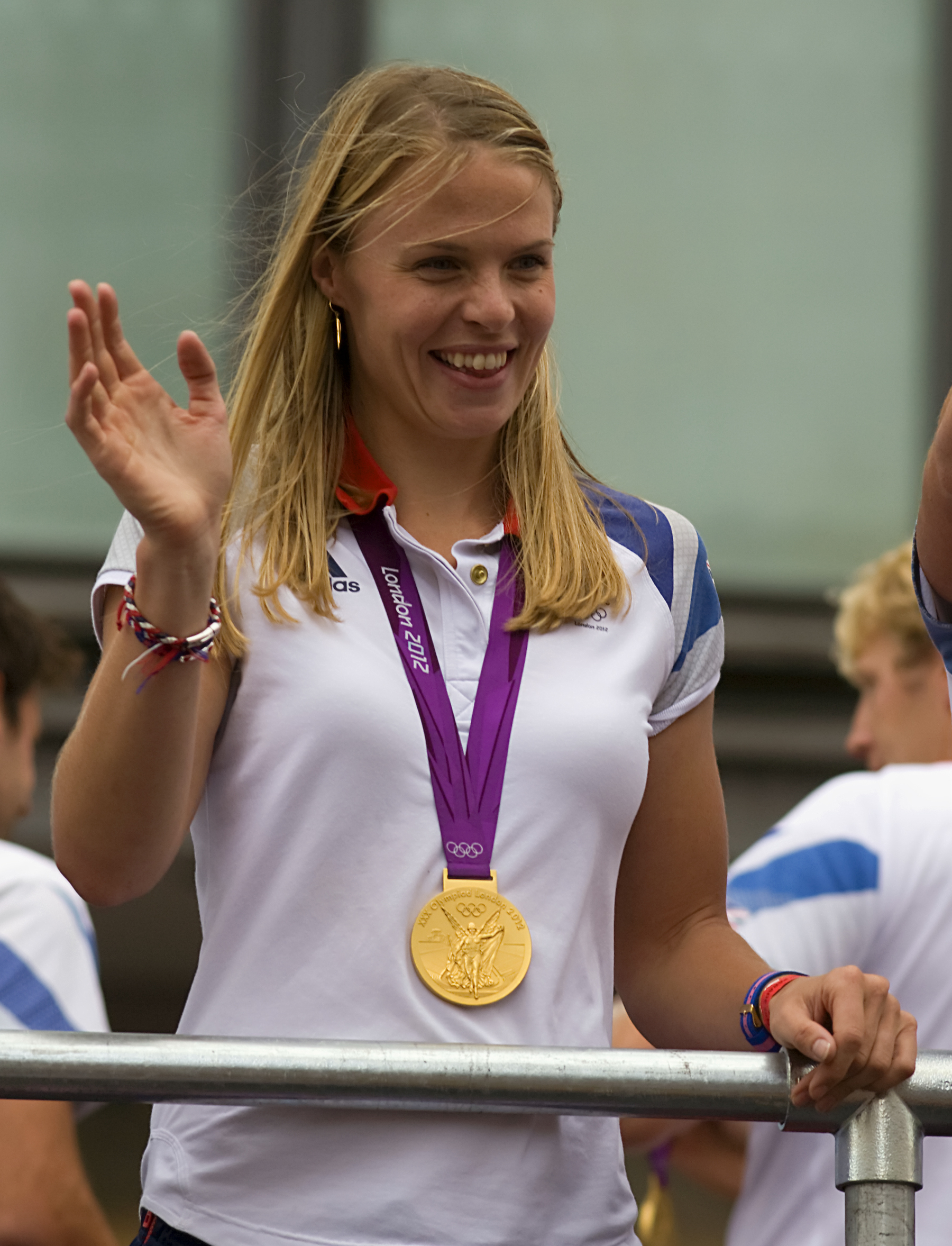 London 2012 Olympic & Paralympic Games Victory Parade, 10th September